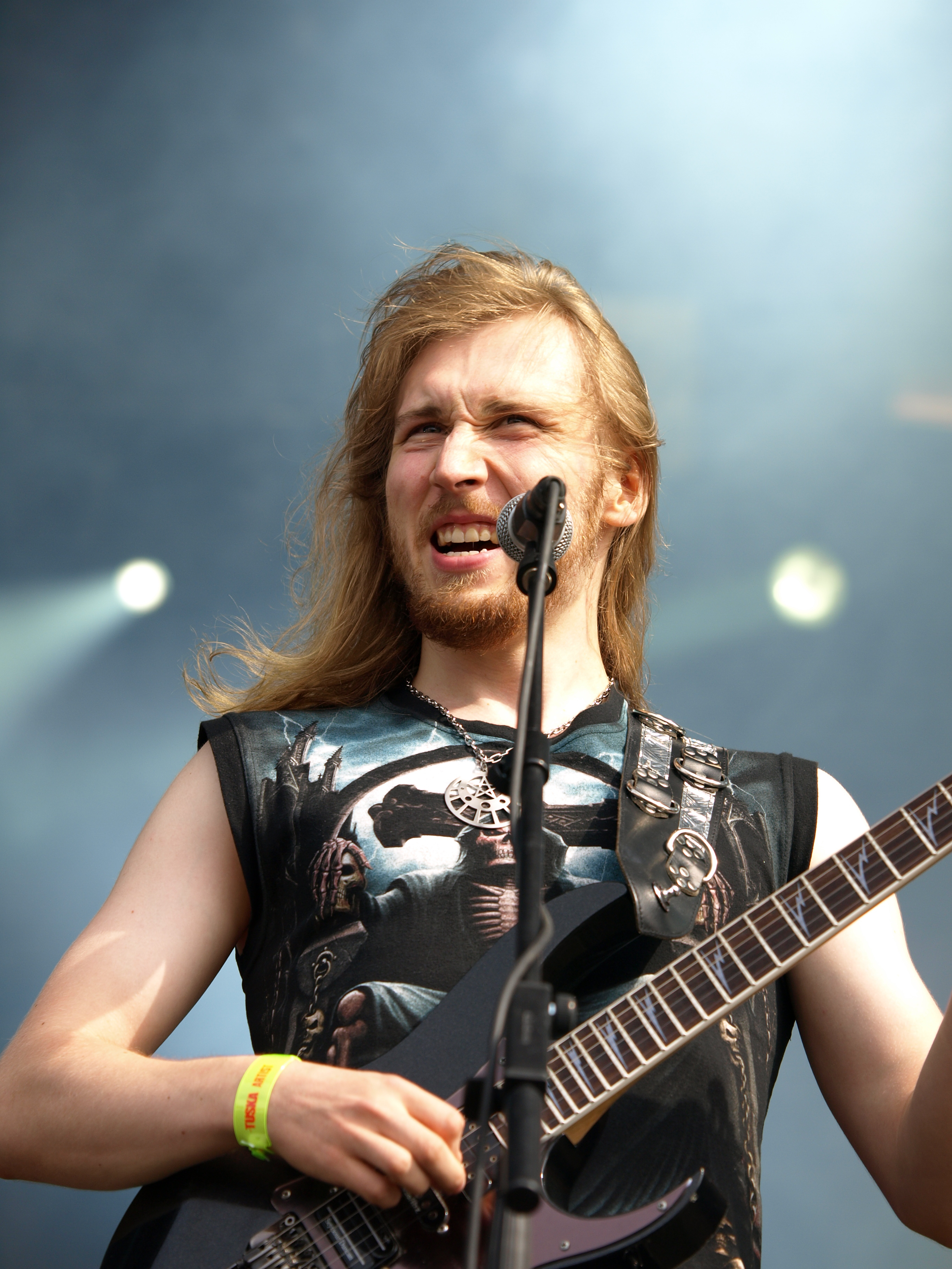 Finnish band Battle Beast at Tuska Open Air 2013